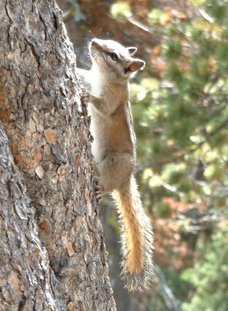 Least Chipmunk, Tamias minimus, in Yellowstone National Park, USA Photographed by Stephen Lea on 1st October 2003 on the path up Avalanche Peak; uploaded by photographer.